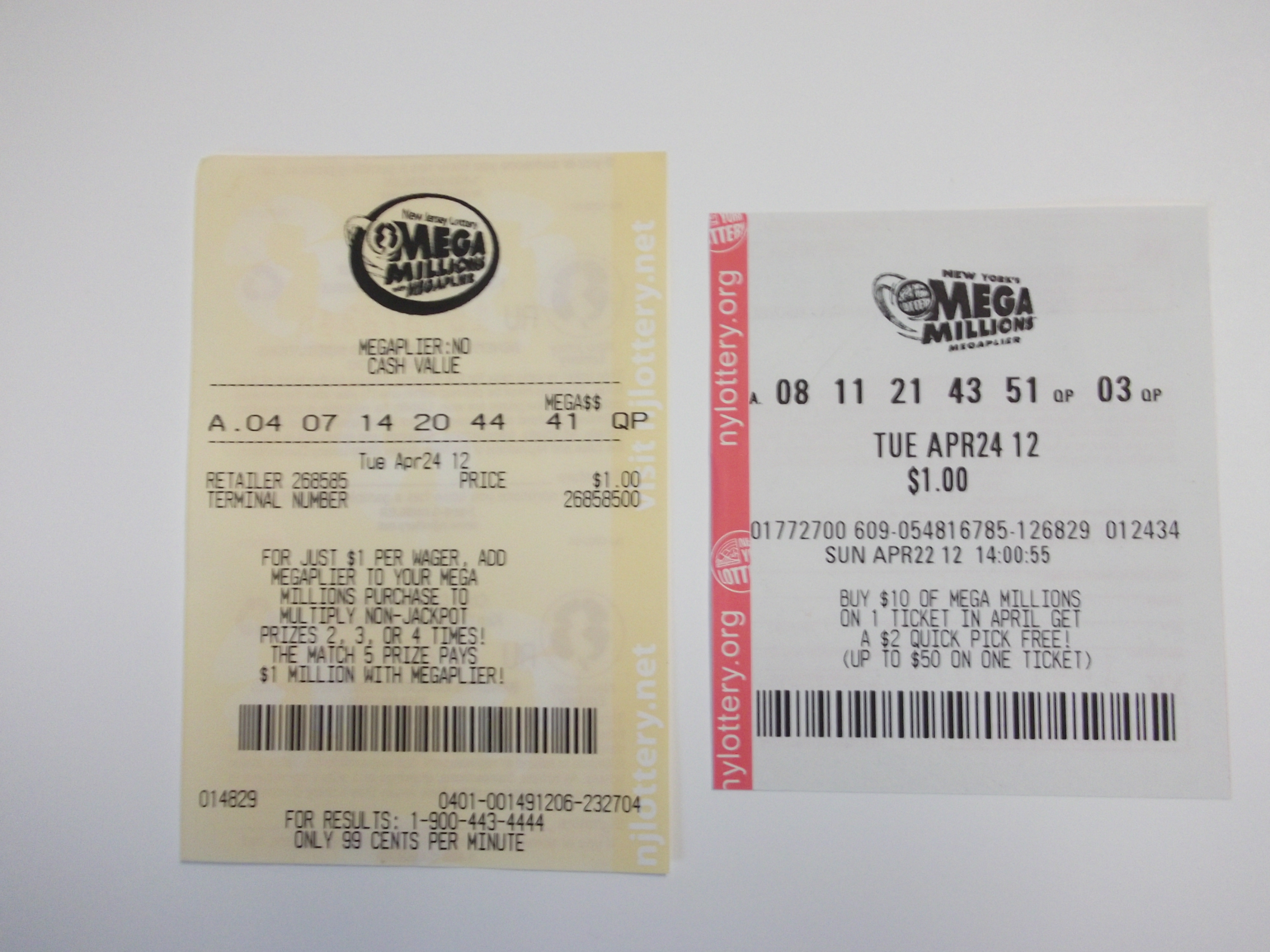 Mega Millions lottery tickets from New Jersey and New York, 2012